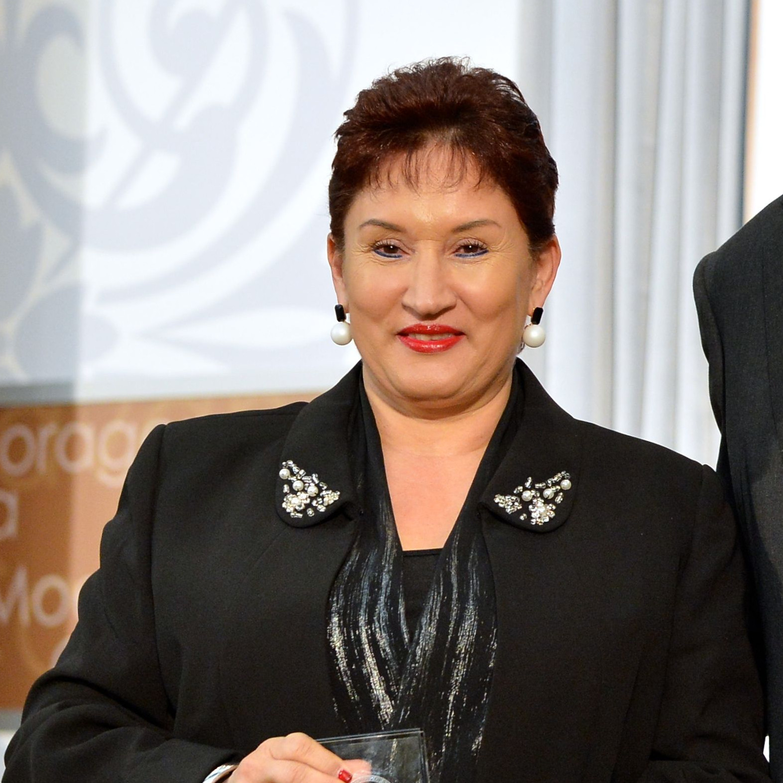 U.S. Secretary of State John Kerry presents the 2016 International Women of Courage Award to Thelma Aldana of Guatemala, Attorney General, at the U.S. Department of State in Washington, D.C., on March 29, 2016. [State Department photo/ Public Domain]